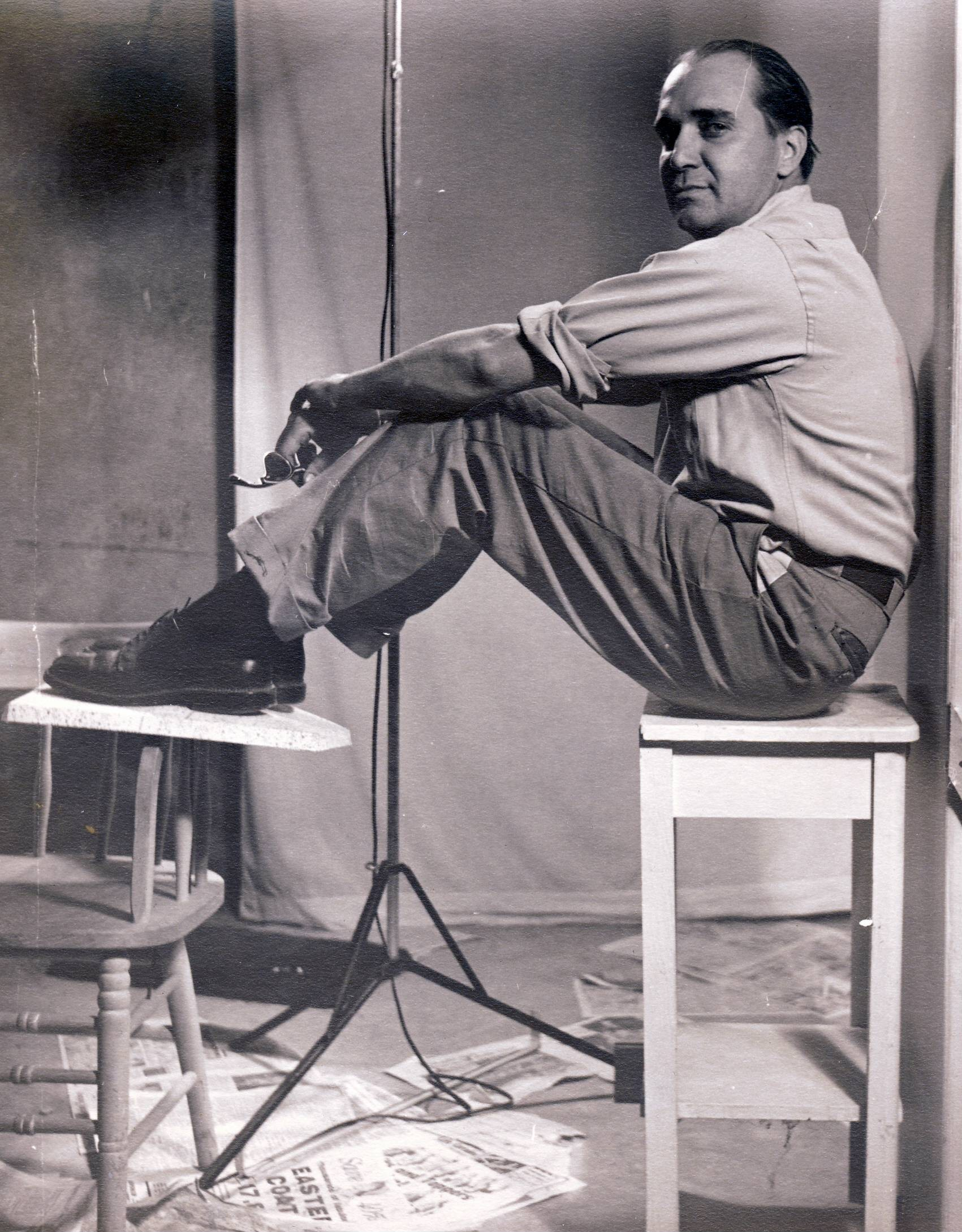 Artist Earl Mayan in his studio